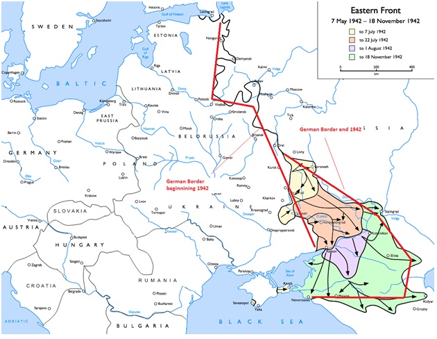 Map2 of our paper